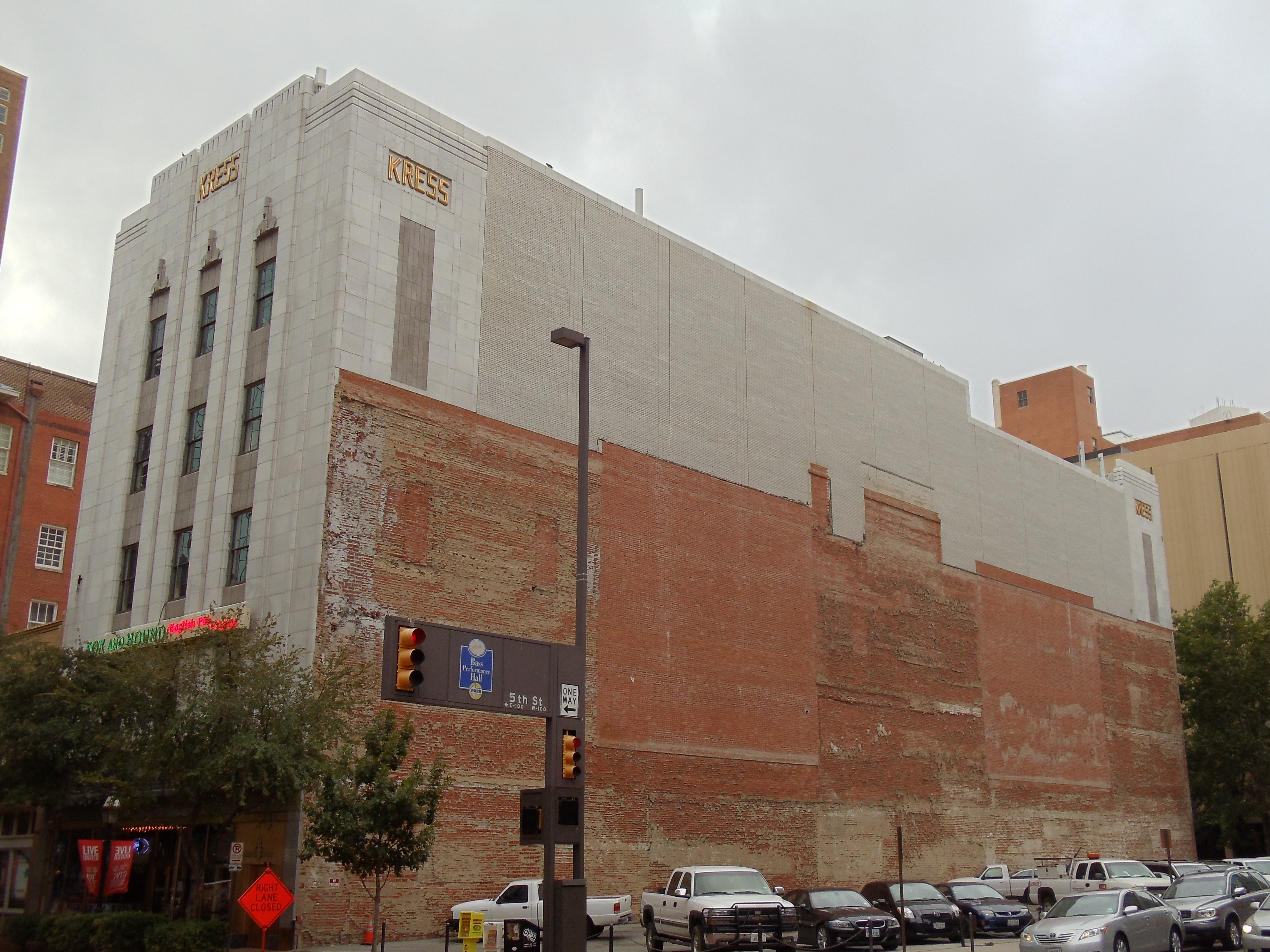 Kress Building